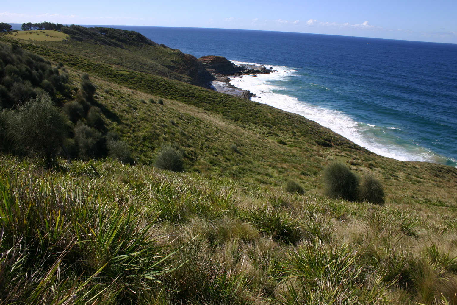 Author: Dimitri Koussa Location: Royal National Park, Australia Description: View from between Burning Palms and Palm Jungle.